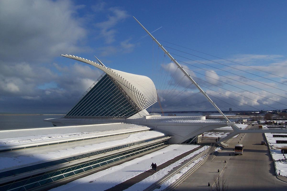 The Quadracci Pavilion of the Milwaukee Art Museum (MAM) in Milwaukee, Wisconsin. It was designed by Spanish architect Santiago Calatrava. (moved from Wikipedia to Commons)